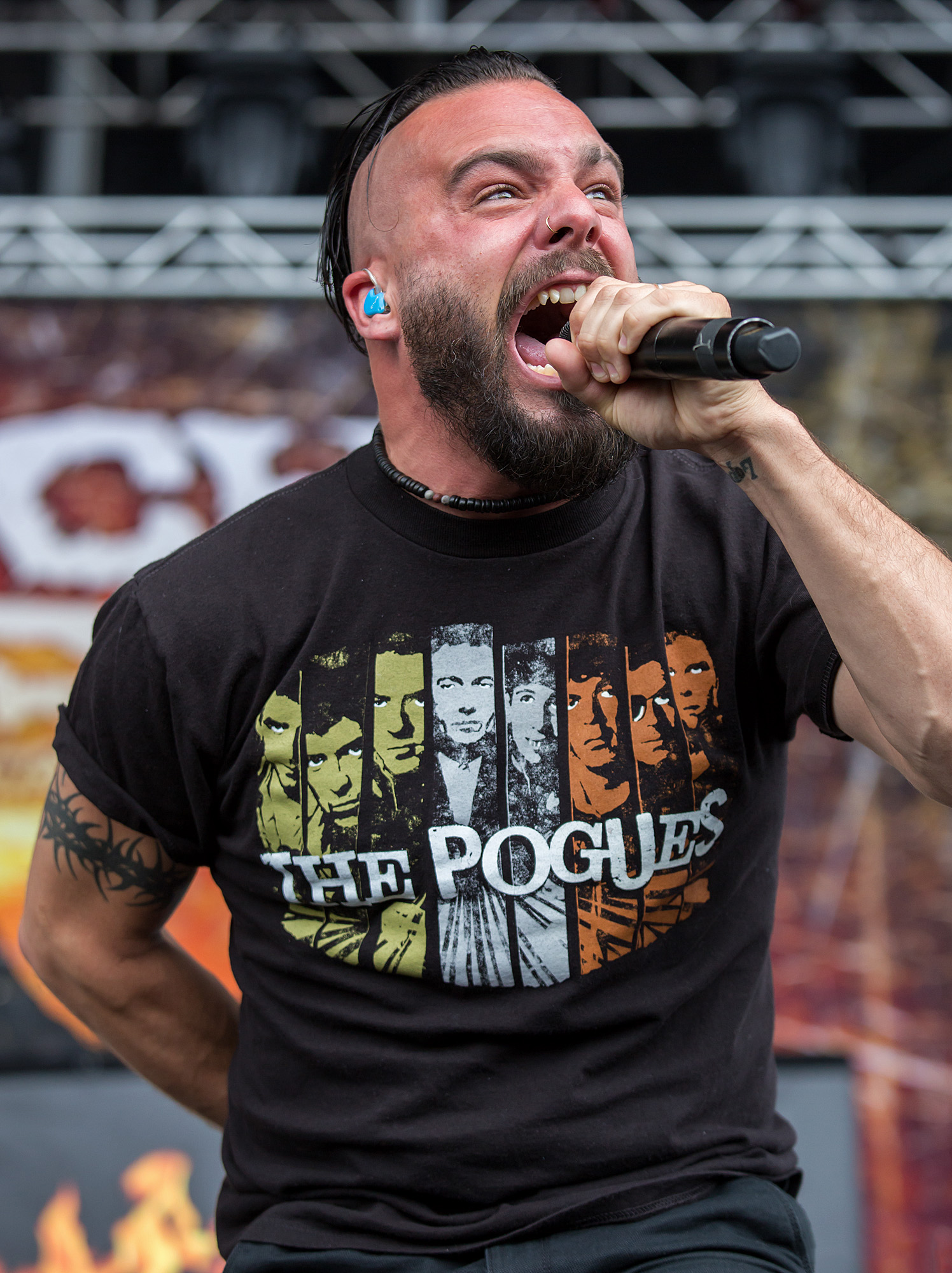 Killswitch Engage, San Antonio, Texas, 2014